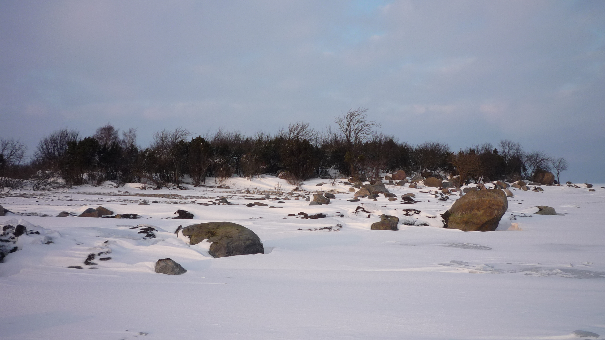 South coast of Kõrgelaid, an island near Hiiumaa, Estonia. View from south.